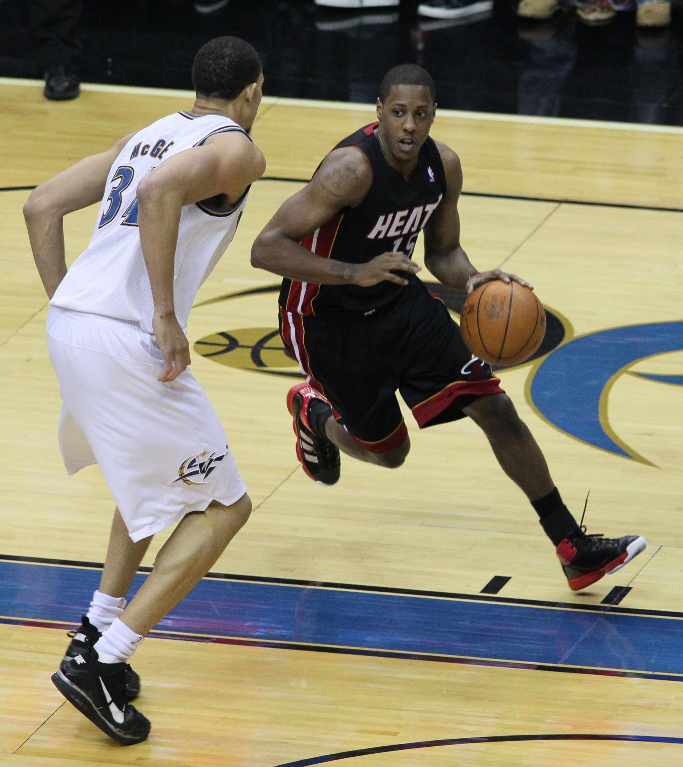 Washington Wizards v/s Miami Heat December 18, 2010